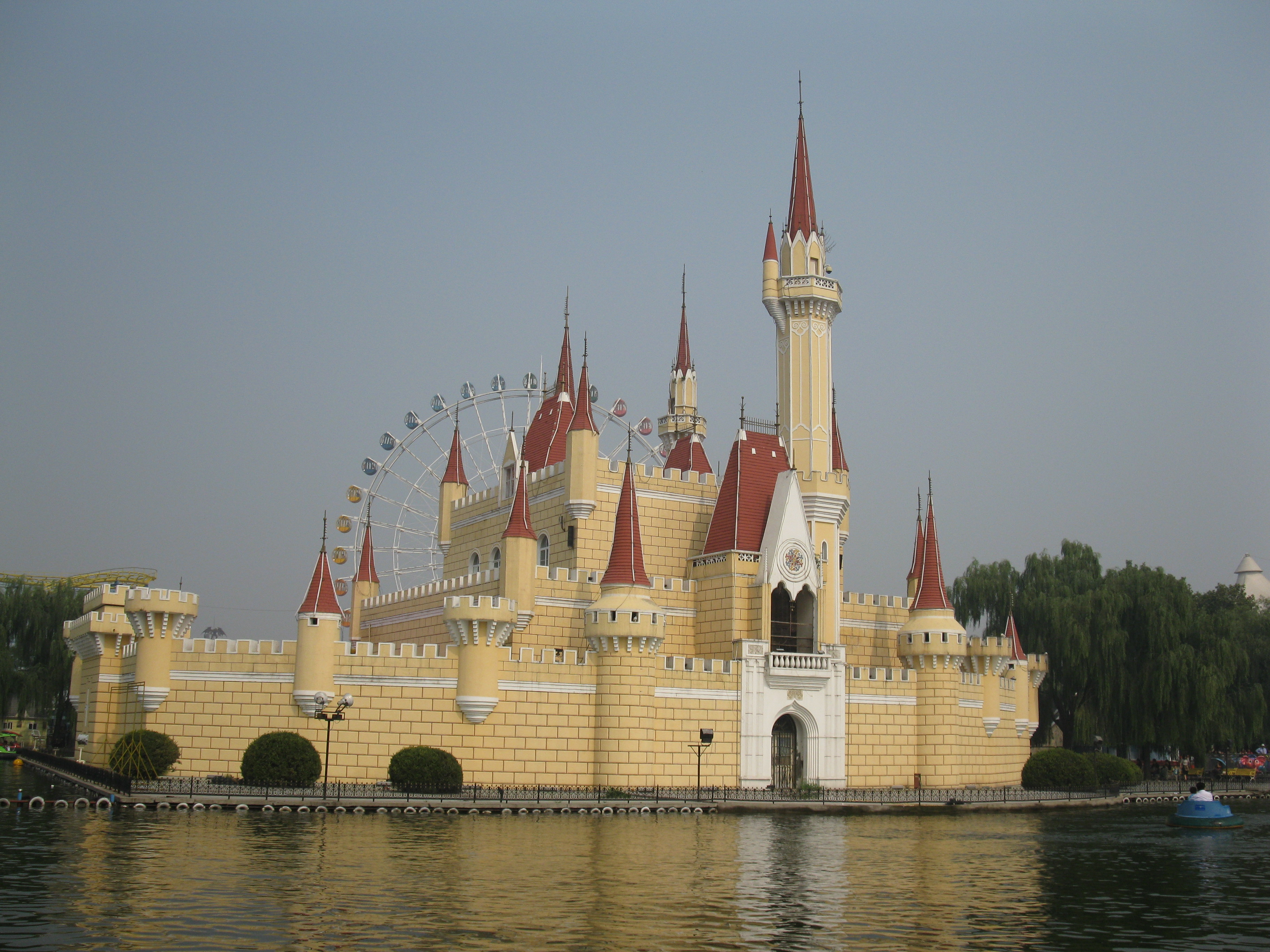 Beijing Shijingshan Amusement Park